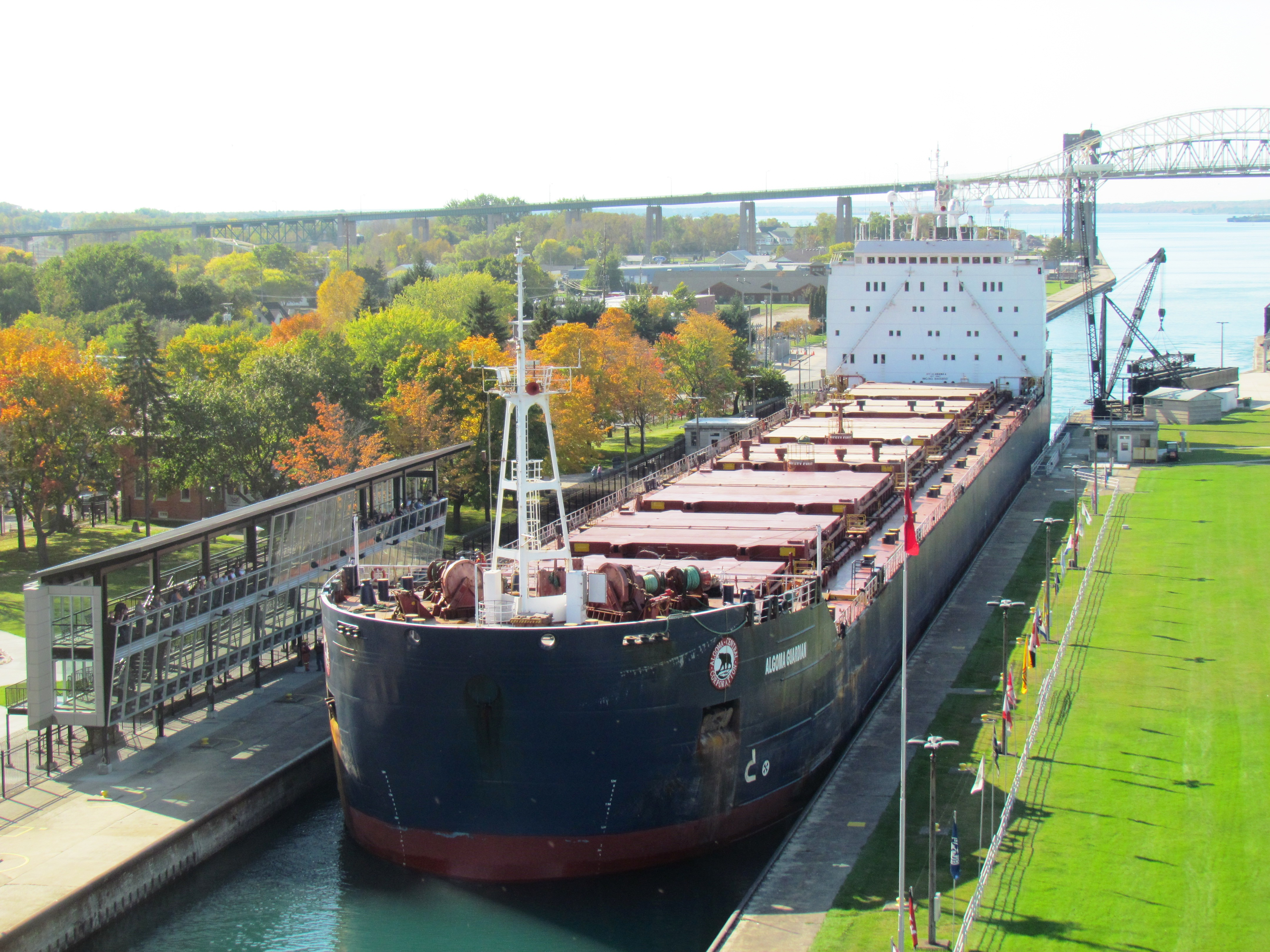 SAULT STE. MARIE, MICH - It is too soon to predict boat traffic for the coming weekend, but with the leaves near peak color and a forecast of sunny weather in the 70s, it should be a great weekend to be in the Soo! Here the Algoma Guardian is sliding into the MacArthur Lock, October 6, 2011. (U.S. Army Corps of Engineers photo by Michelle Hill)